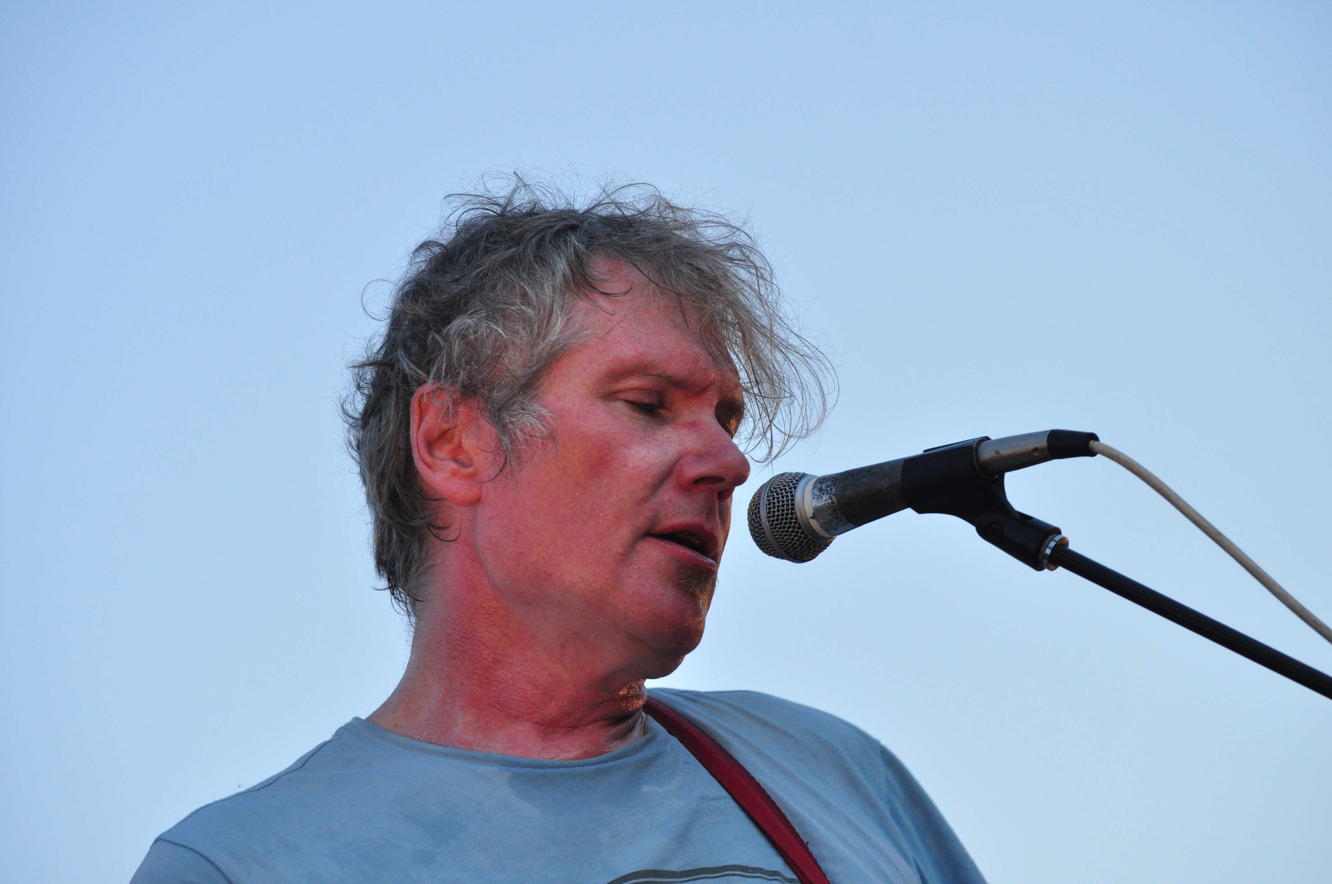 Lead vocalist Ron Nine of Seattle Band Love Battery performing at the Mural Amphitheatre, Seattle Center.